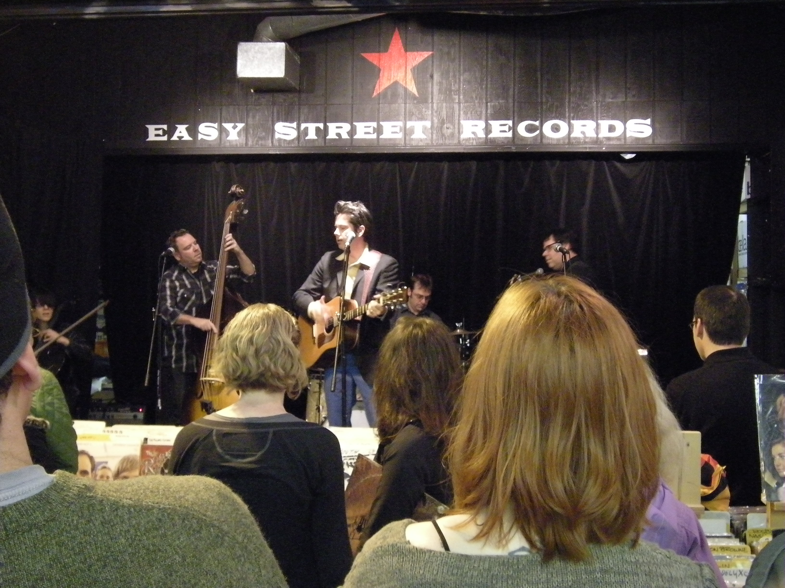 Mark Pickerel, playing with his band Mark Pickerel and His Praying Hands as a Record Store Day performance at Easy Street Records, 20 Mercer Street, Lower Queen Anne, Seattle, Washington. Pickerel, an original member of the Screaming Trees, currently works at the store. I believe that's John Ramberg on bass and Jim Sangster on guitar; I don't know who the drummer is.